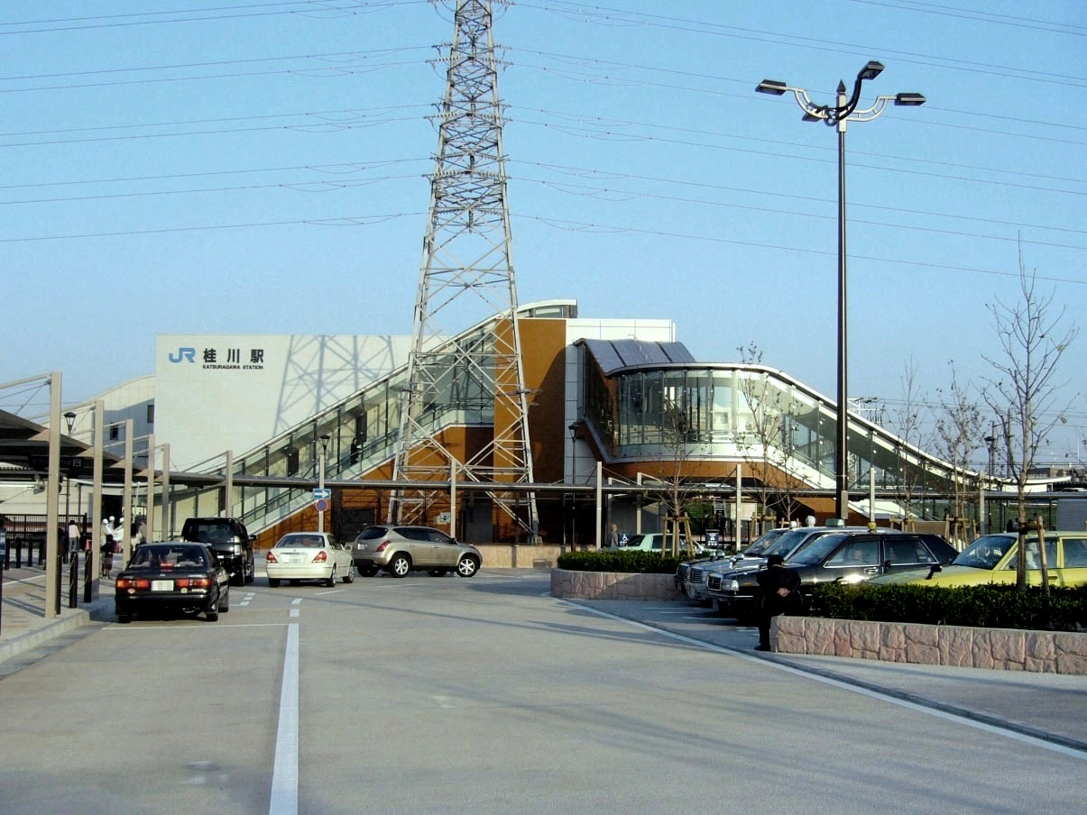 West gate of Katsuragawa Station on the Tōkaidō Main Line (JR Kyoto Line) located in Minami-ku, Kyoto. Photo taken by user:Bergmann on October 18, 2008, the date of opening of the station.